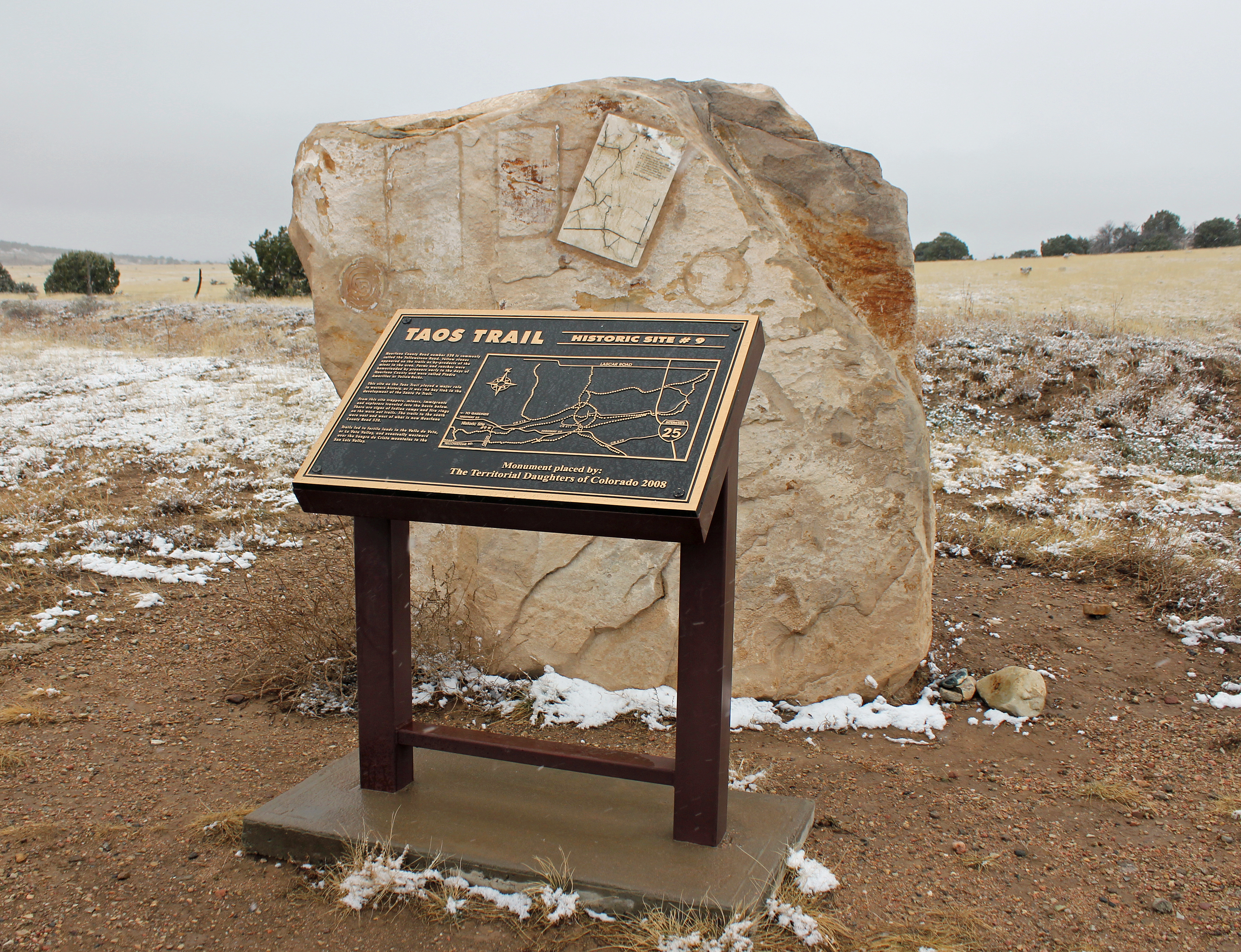 A historical marker for the Taos Trail, located on Huerfano (Colorado) County Road 520, about a quarter mile south of Colorado State Highway 69. Some of the text on the marker reads, "Taos Trail, historic site no. 9, Monument placed by: The Territorial Daughters of Colorado 2008."